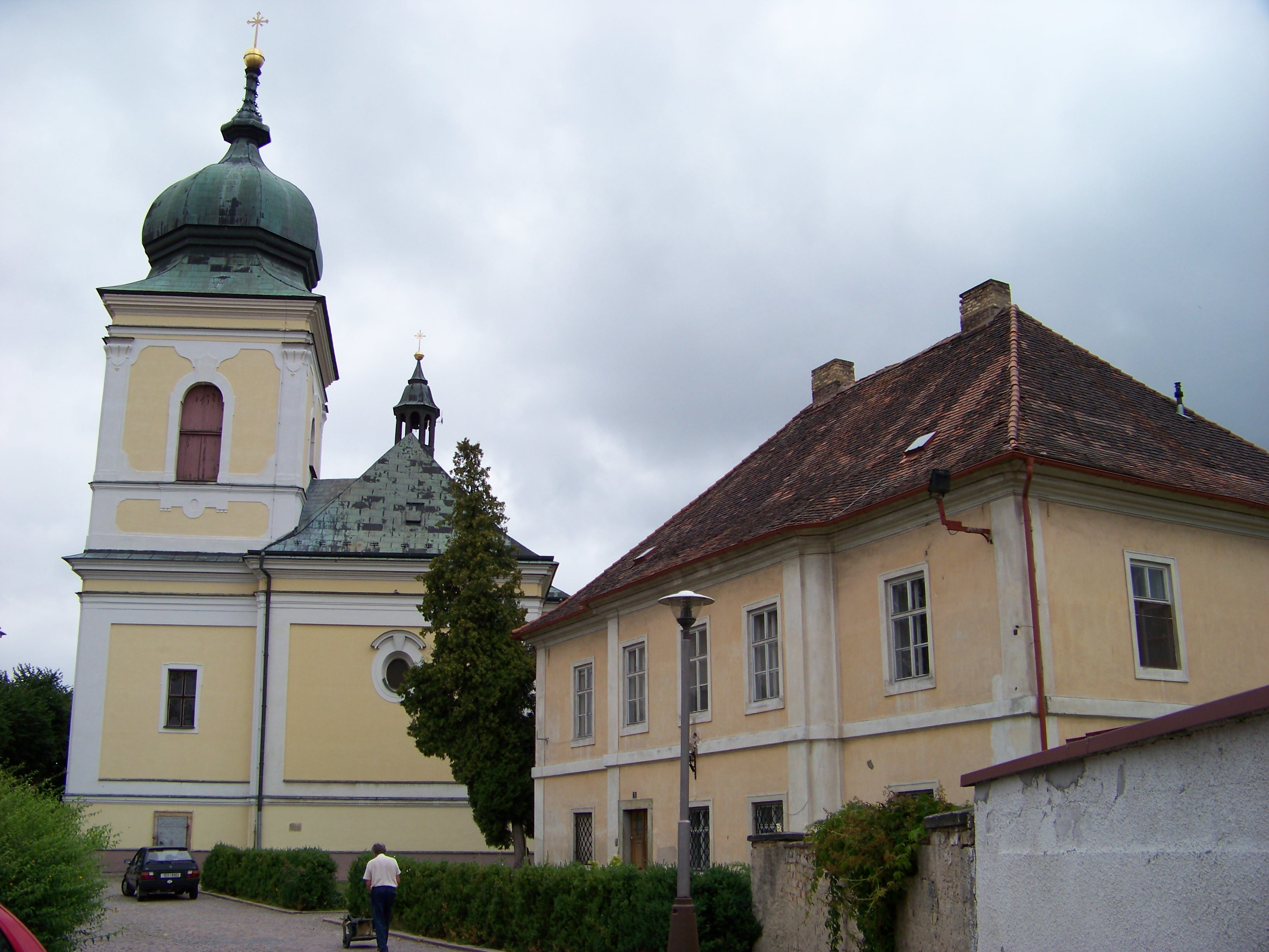 Holice, Pardubice District, Pardubice Region, the Czech Republic. Saint Martin Church. - OpenStreetMap(Info)